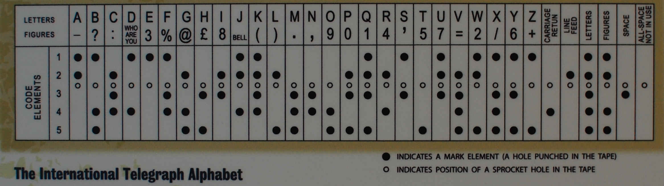 International Telegraph Alphabet 2